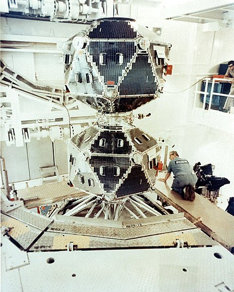 Photographs of Vela (Satellite)-5A & B satellites and instruments